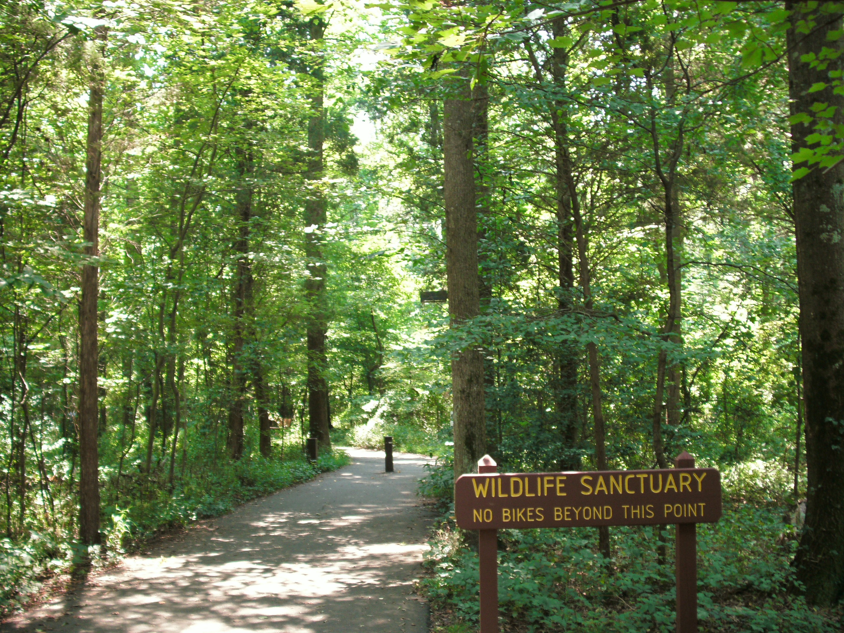 Fairfax County, VA GEDSC DIGITAL CAMERA